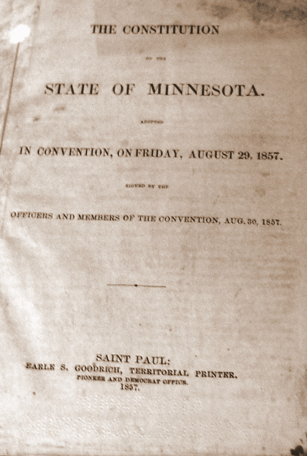 original Minnesota State Constitution, printed 1857